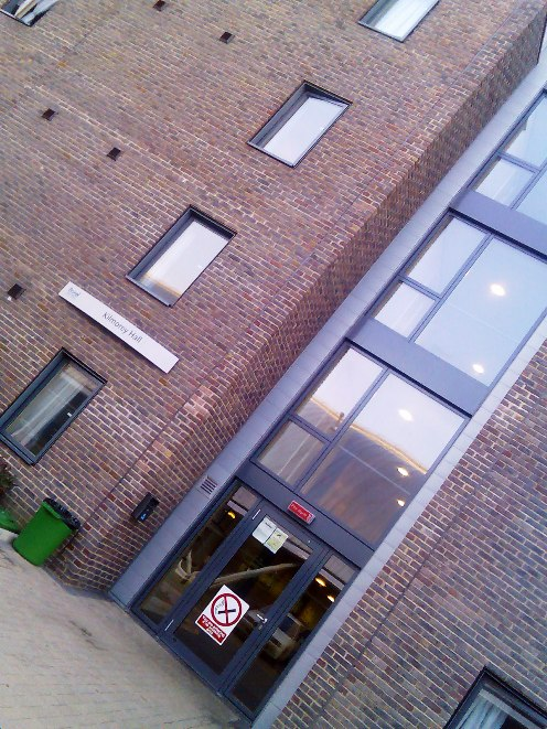 Kilmorey Hall at Brunel University's Uxbridge Campus